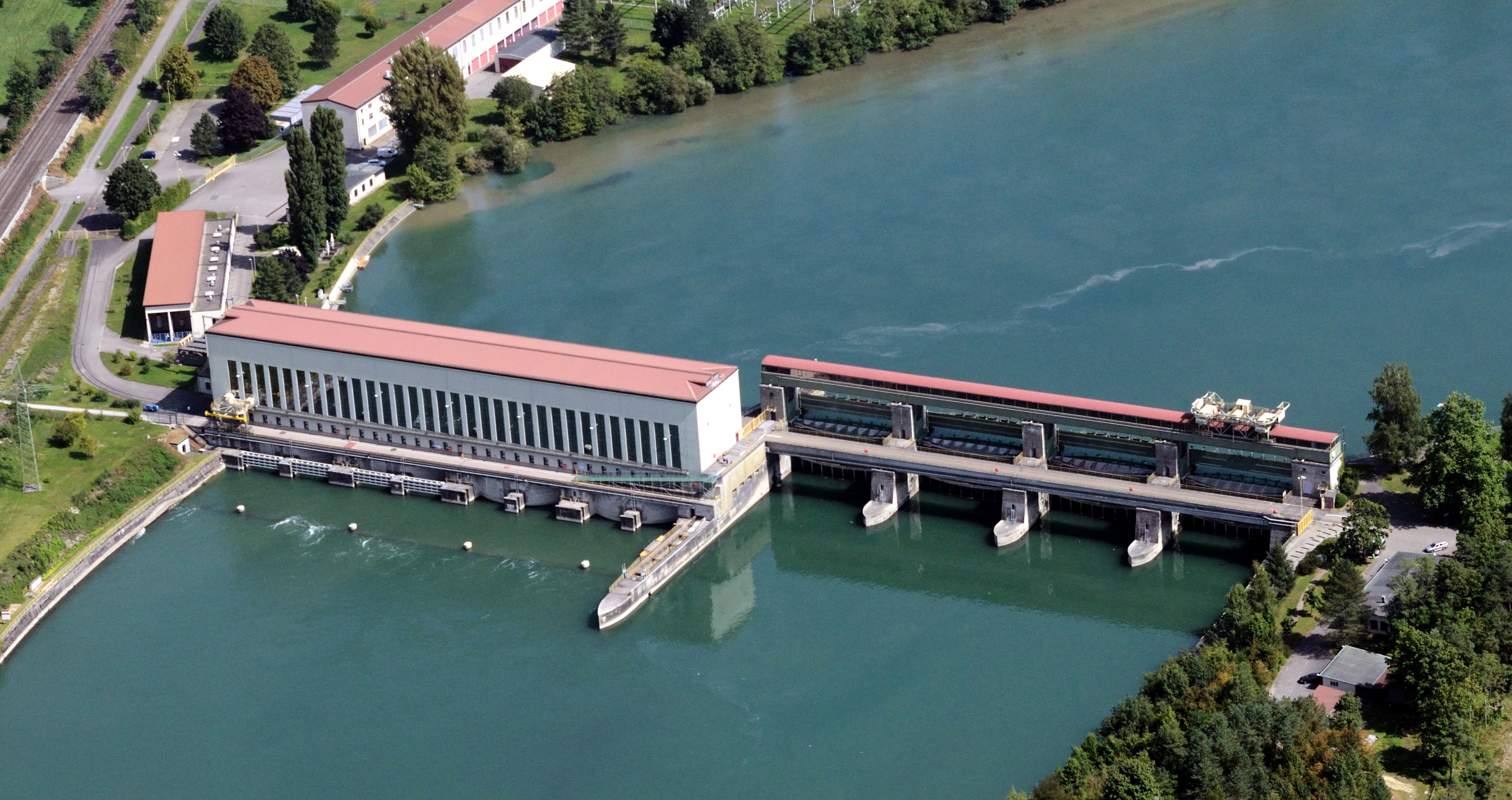 aerial view of power station Ryburg-Schwörstadt